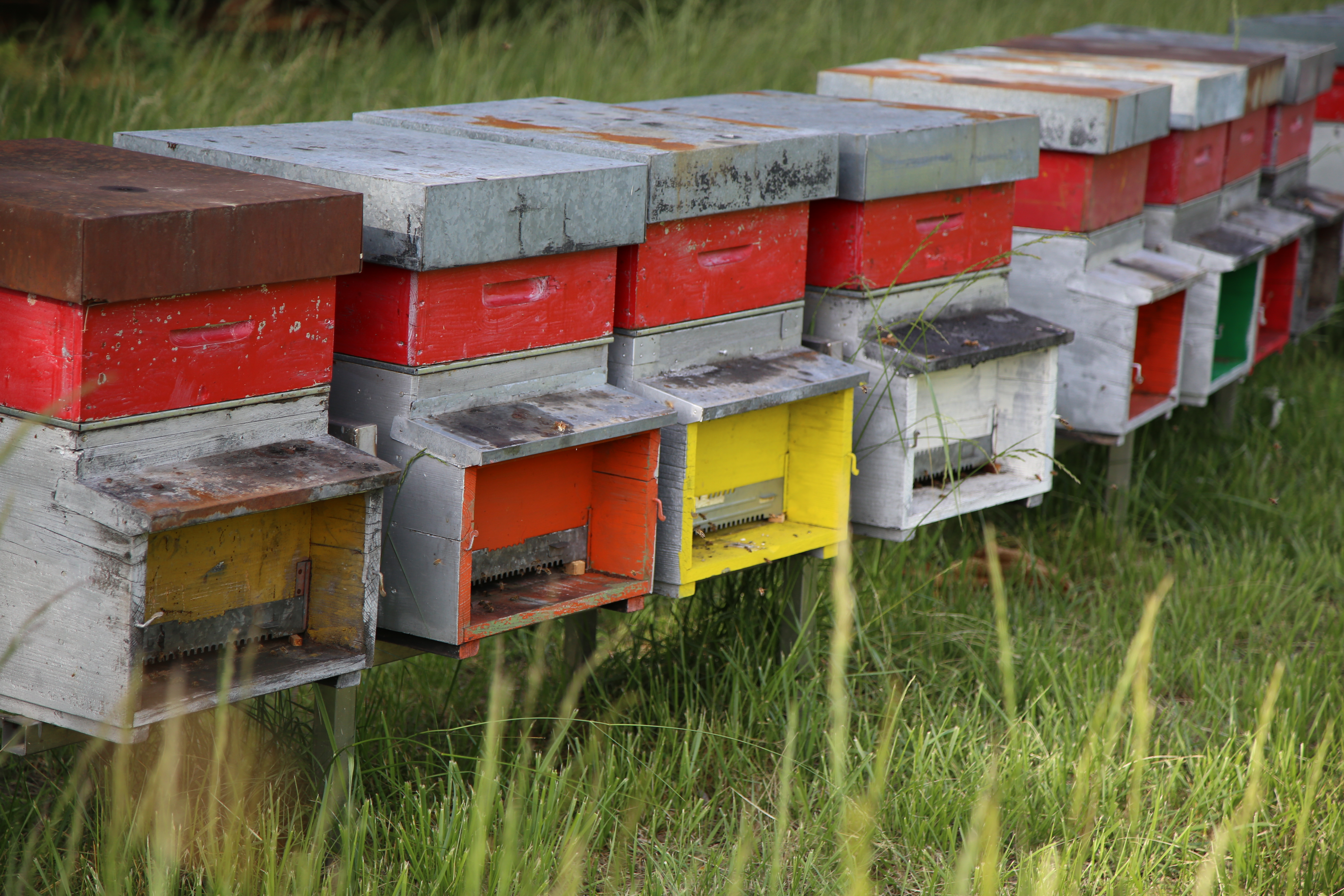 Beehives in Parco Alto Milanese, Legnano, Lombardy, Italy on May 2nd, 2015